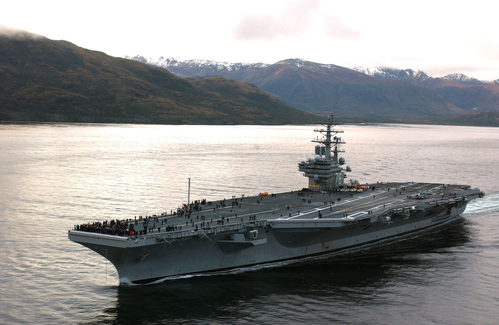 USS Ronald Reagan traveling through the Straits of Magellan, to San Diego, CA, in a transfer move.